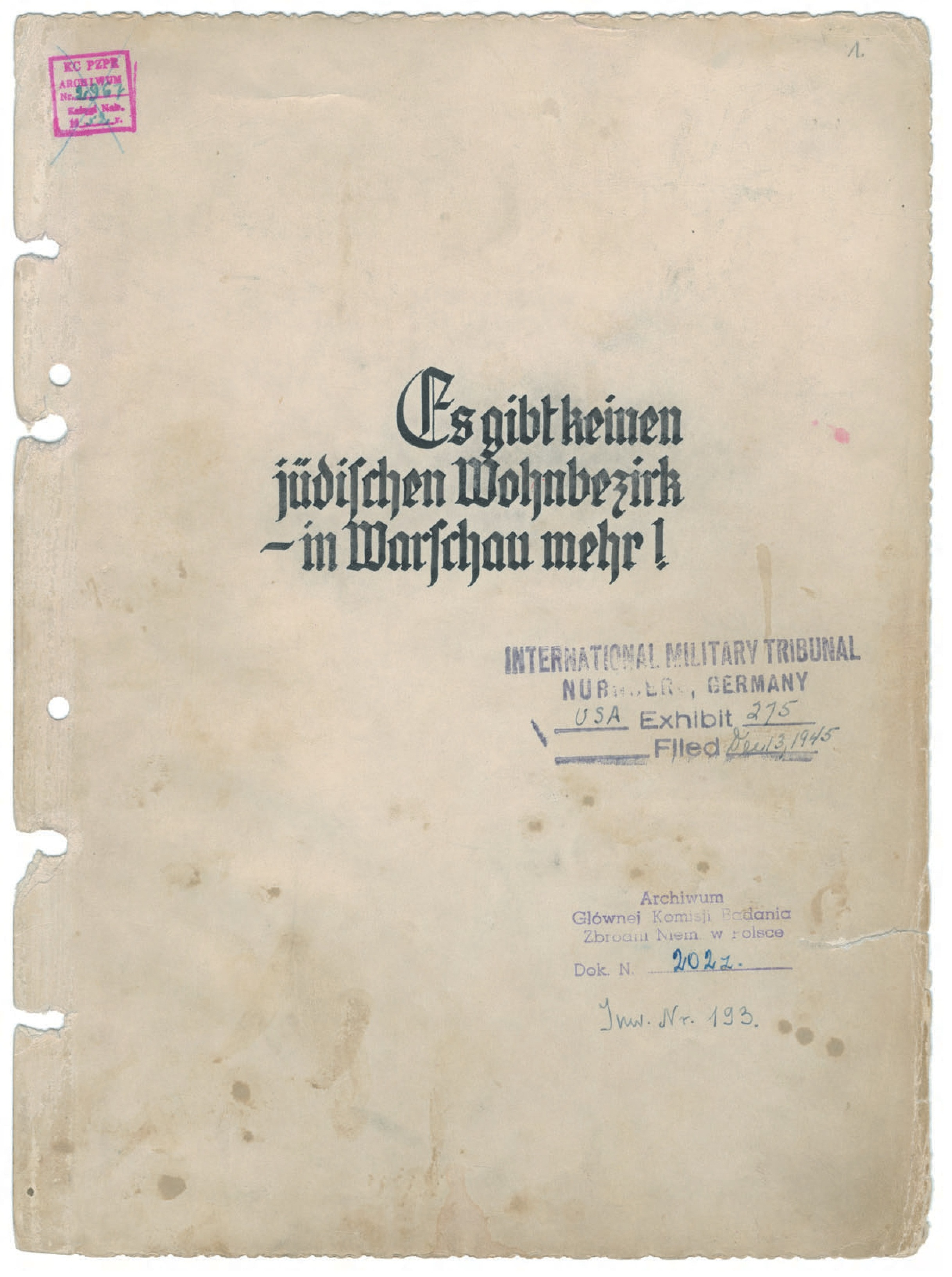 Warsaw Ghetto Uprising- The cover page from a copy of Jürgen Stroop Report to Heinrich Himmler from May 1943. The German title reads: "The Jewish Quarter of Warsaw is no more!". Below Nuremberg Trials stamps.